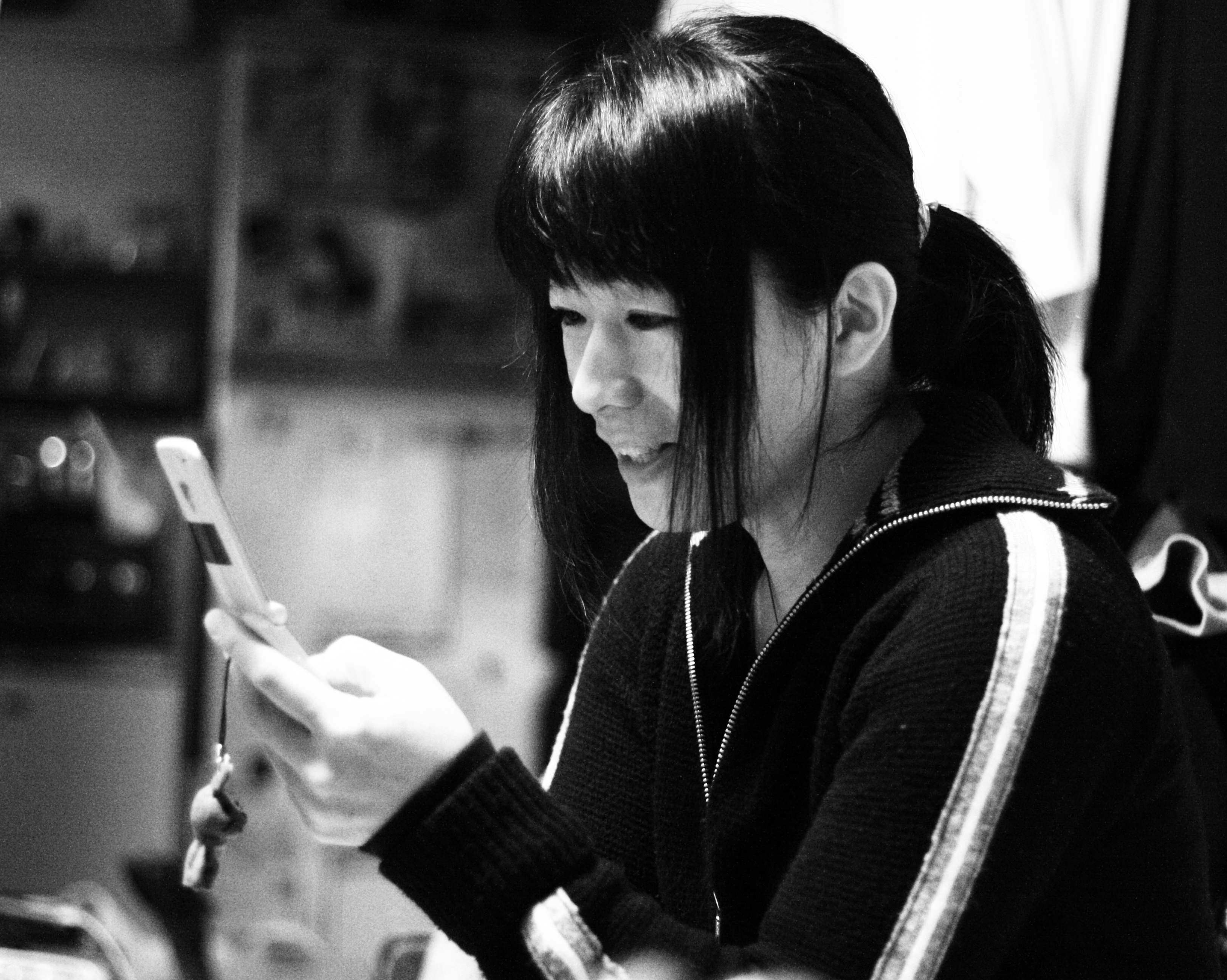 A Japanese woman with a mobile phone. (N.B. Uploading permission was granted by the woman depicted in the image.)